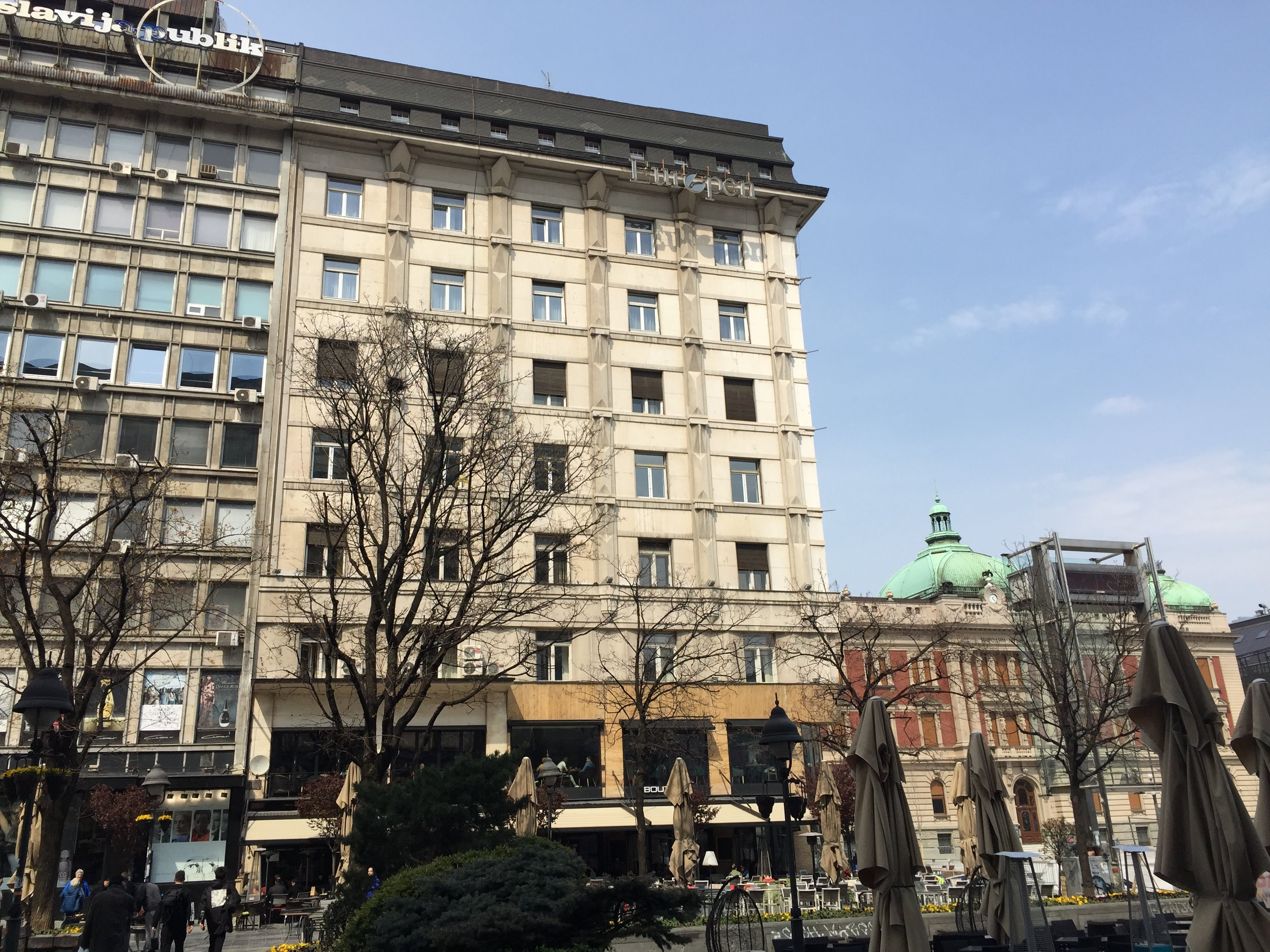 Balgrade "Reuniona" Palace